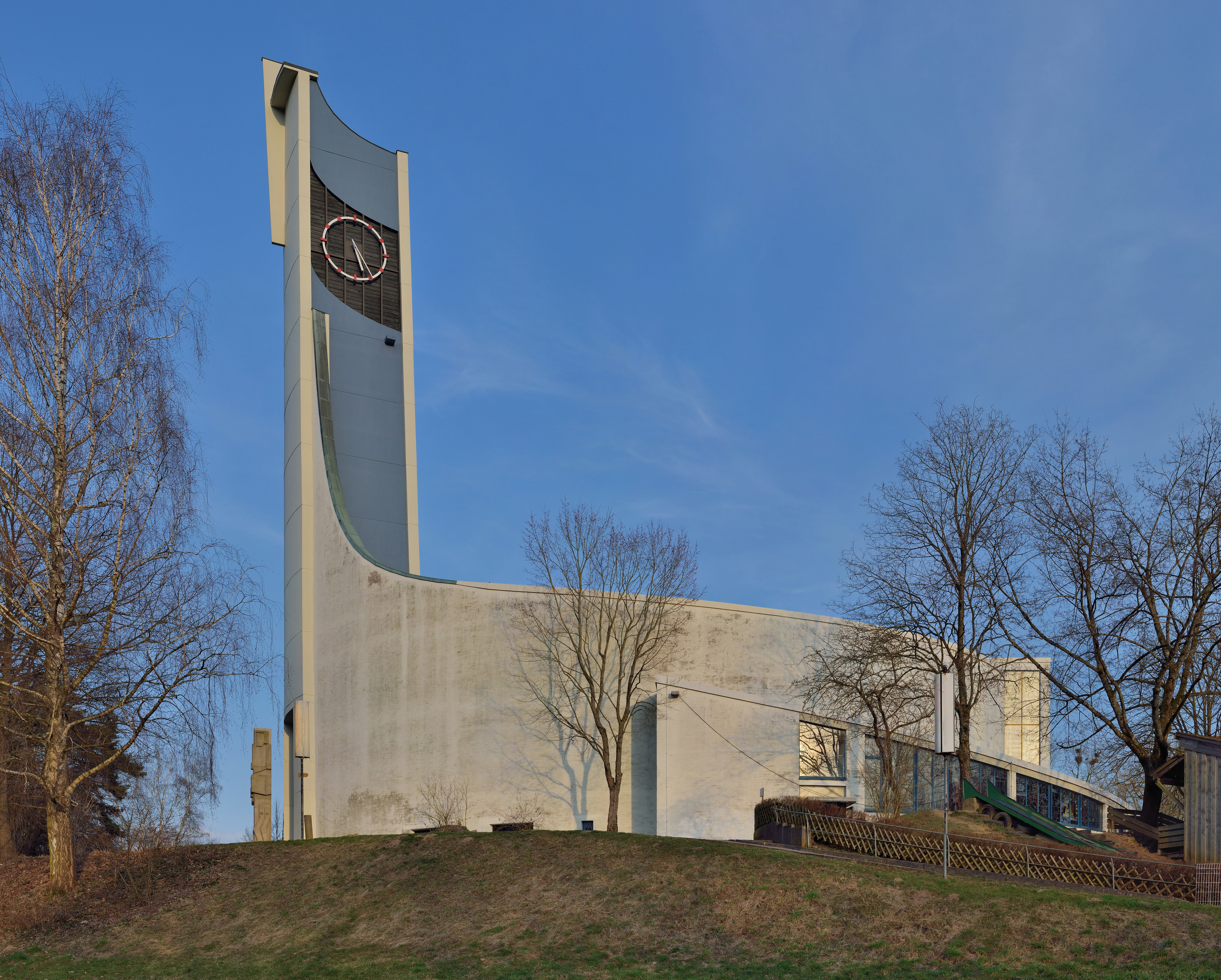 Lörrach: St. Peter's Church, westview